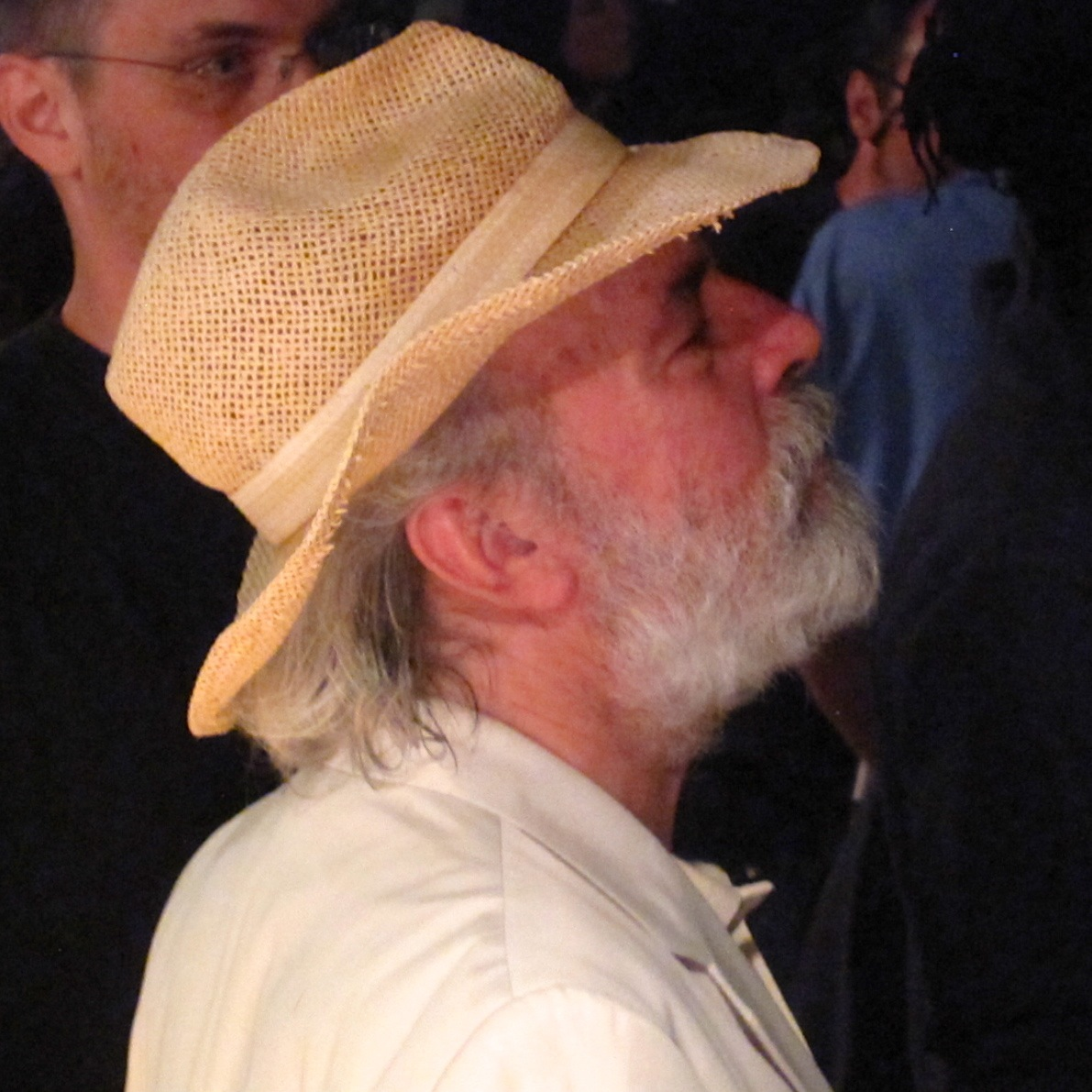 Heinz Trenczak (born 3 January 1944 in Graz) is an Austrian filmmaker and writer.